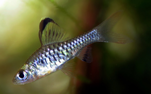 Oreichthys parvus male